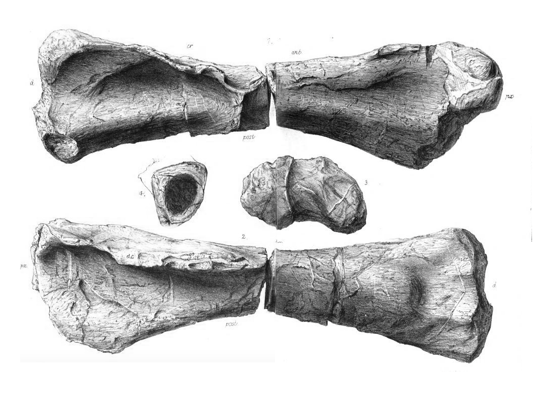 holotype humerus of Duriatitan in posterior (top), cross section (mid-left), distal (mid-right), and anterior (bottom) views.